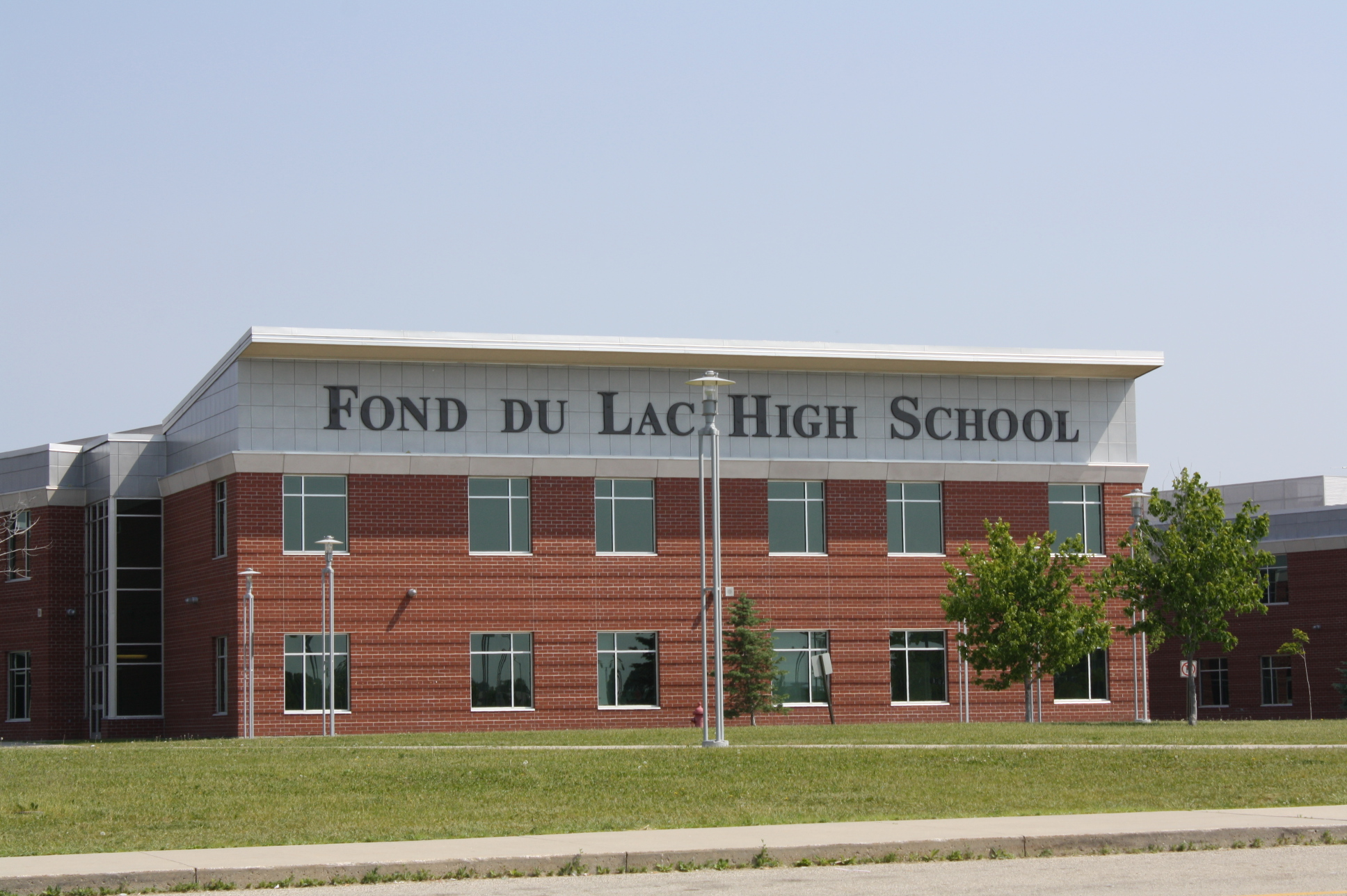 The entrance for Fond du Lac High School in Fond du Lac, Wisconsin.